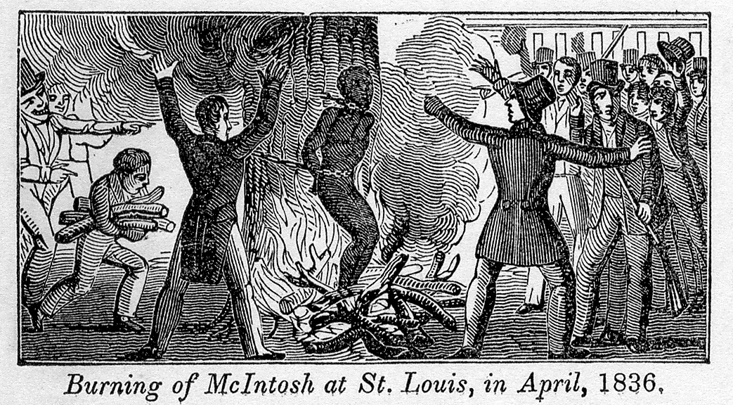 Cropped image of , sourced from